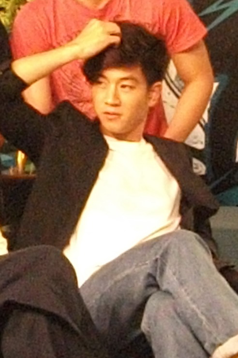 Tony Rakkaean at MTV Onair Live!